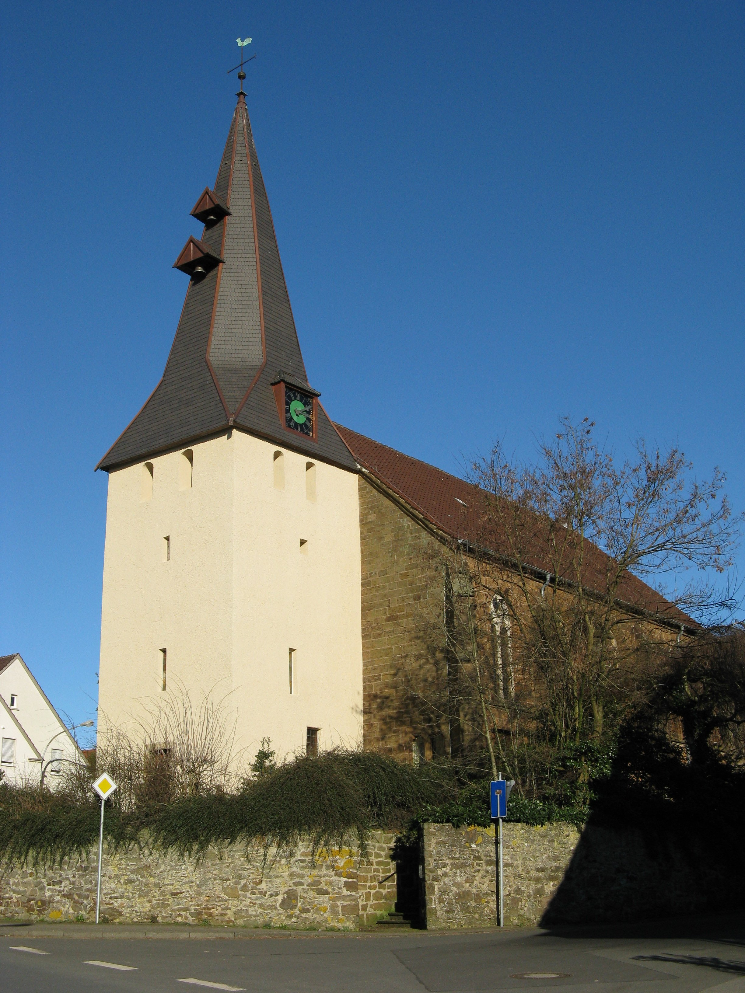 This image shows a heritage building in Germany, located in the North Rhine-Westphalian municipality Hüllhorst (no. 15).